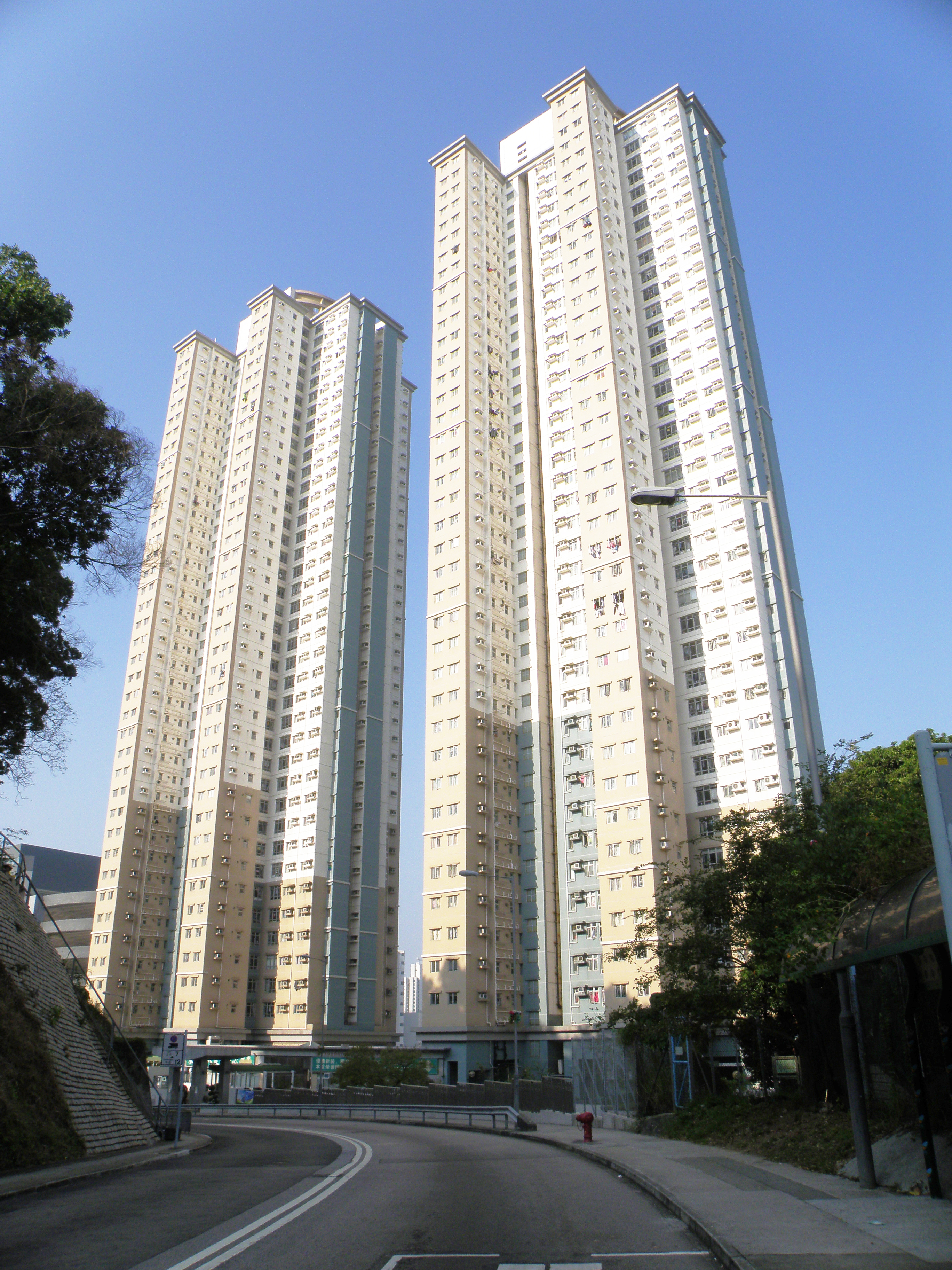 High Prosperity Terrace in Kwai Shing West, Hong Kong.